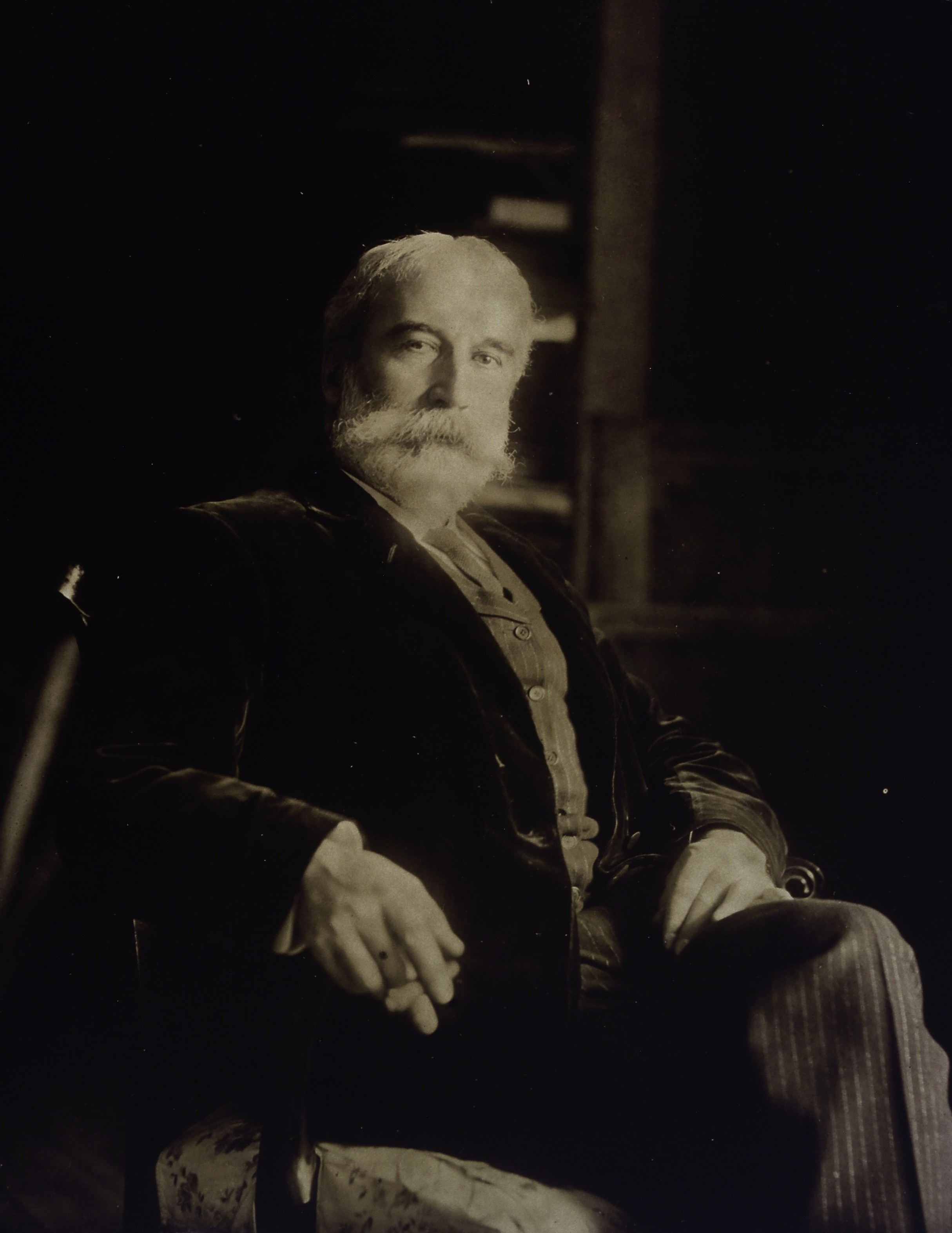 Portrait of Sir John MacAlister [1856 - 1925], Secretary and librarian of the Royal Society of Medicine, London. Iconographic Collections Keywords: portrait photographs